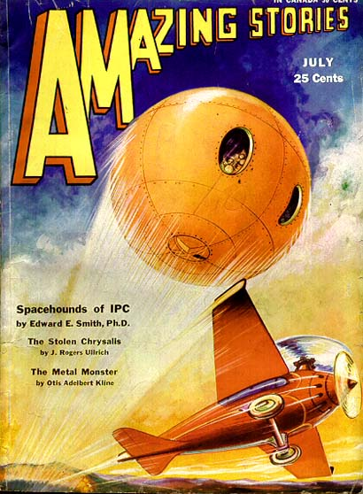 Cover of Amazing Stories, July 1931